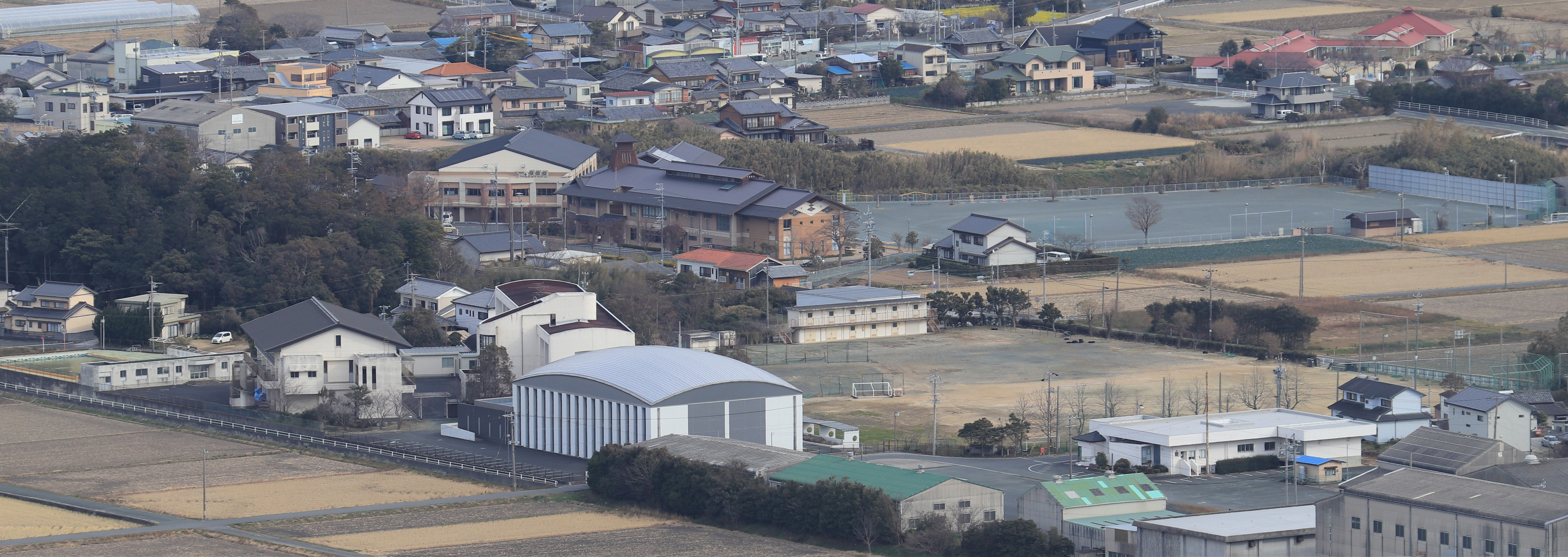 Tahara City Noda Junior High School (closed) and Tahara City Noda Elementary School in Noda-cho, Tahara, Aichi Prefecture, Japan.